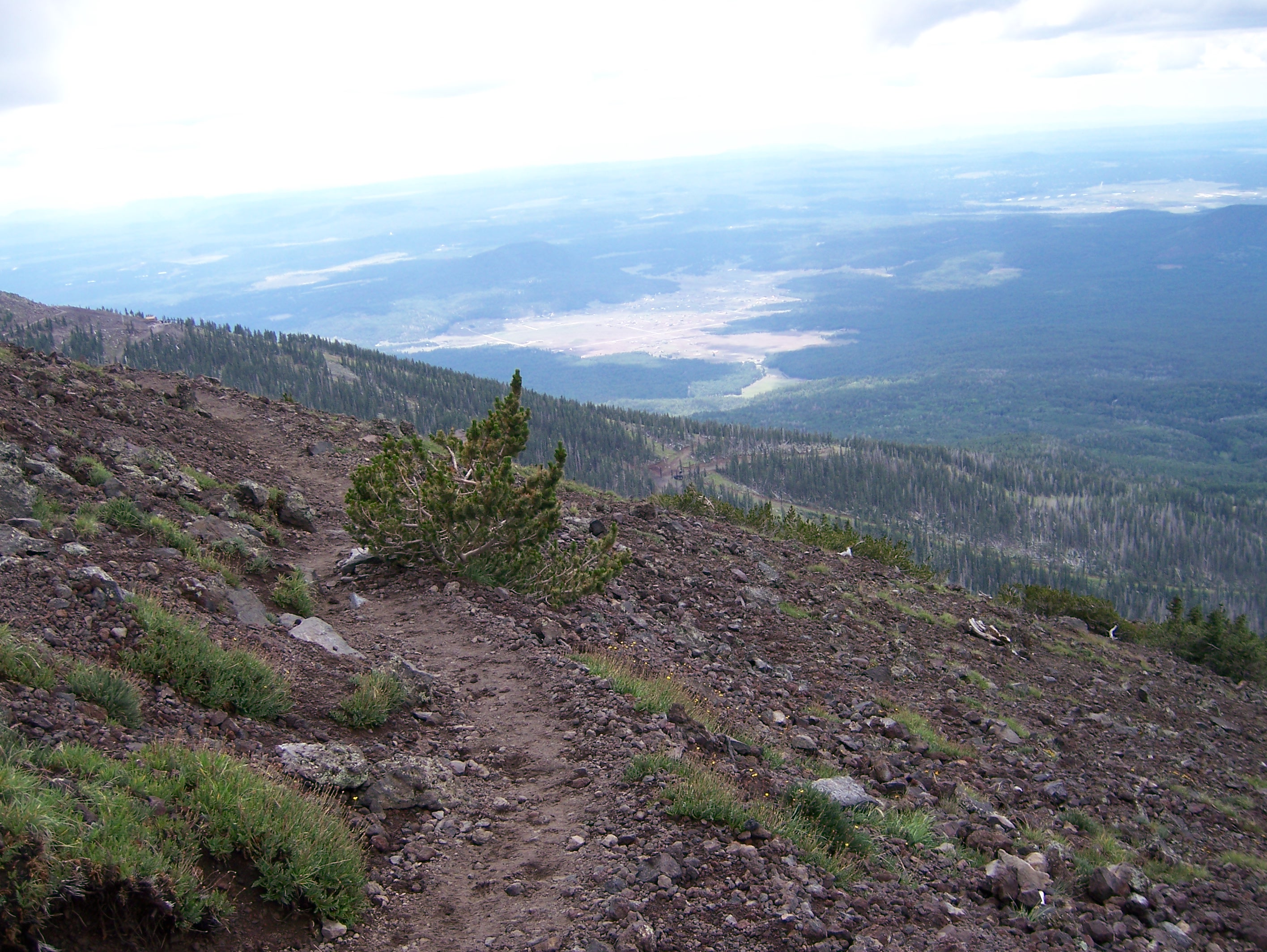 Stunted Pinus aristata krummholtz, Humphreys Peak, Arizona.